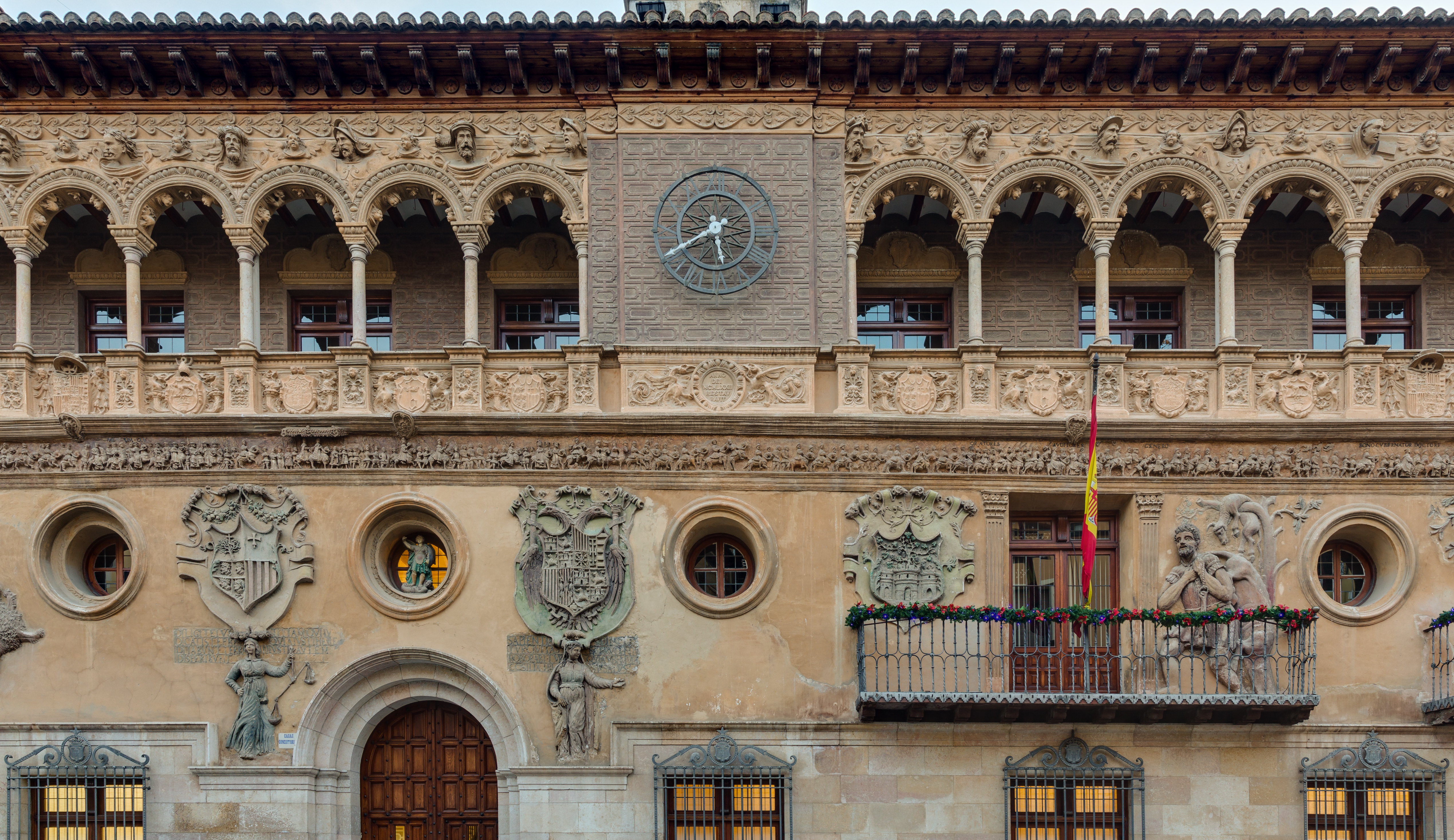 Town hall of Tarazona, Zaragoza, Spain